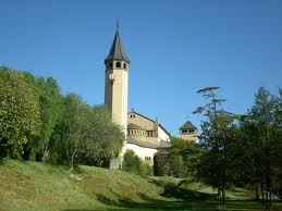 Iglesia de Torribera